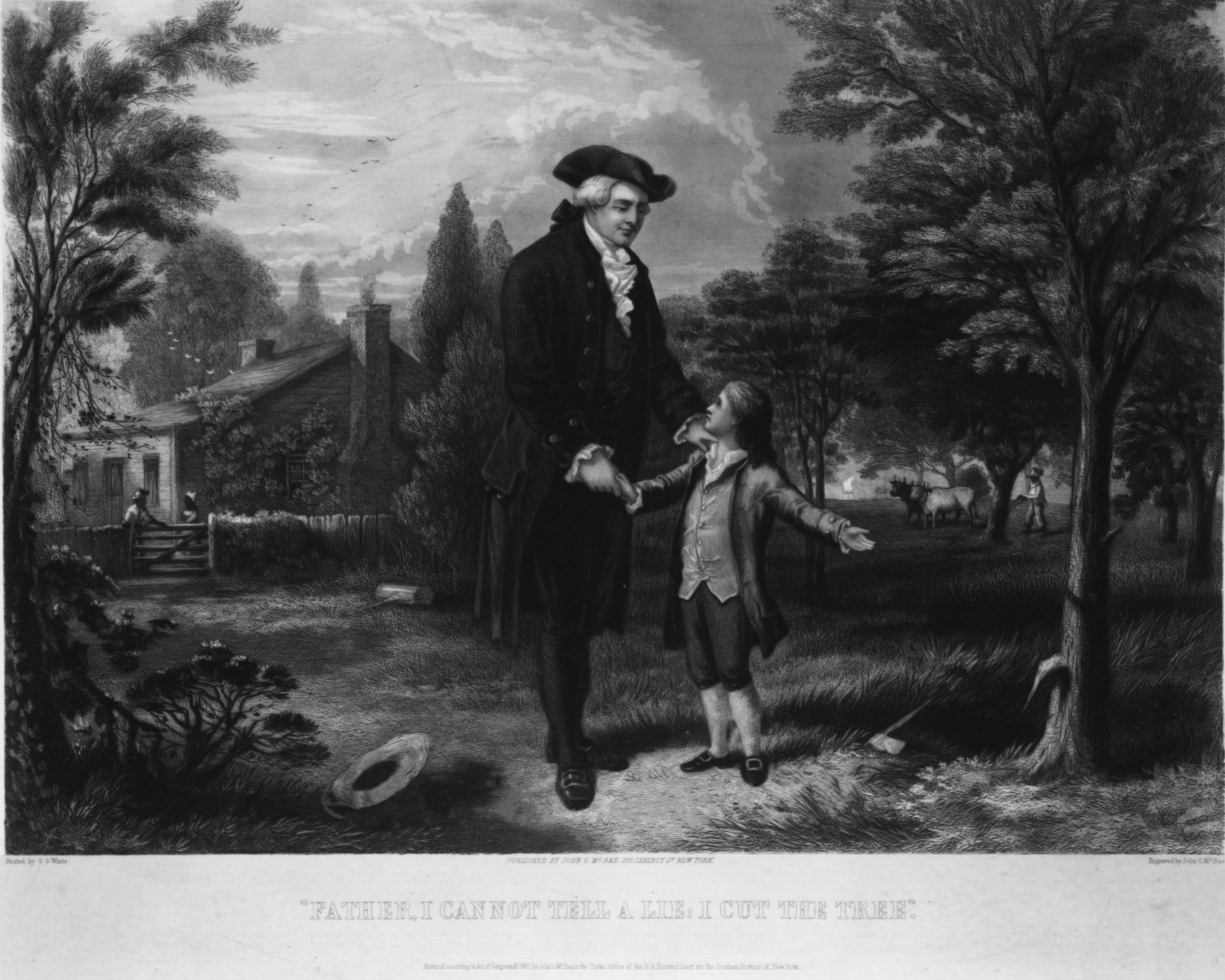 George Washington, as a boy, telling his father Augustine Washington that it was he who cut down the cherry tree. This lithograph was engraved in 1867 by John C. McRae after a painting by G. G. White.